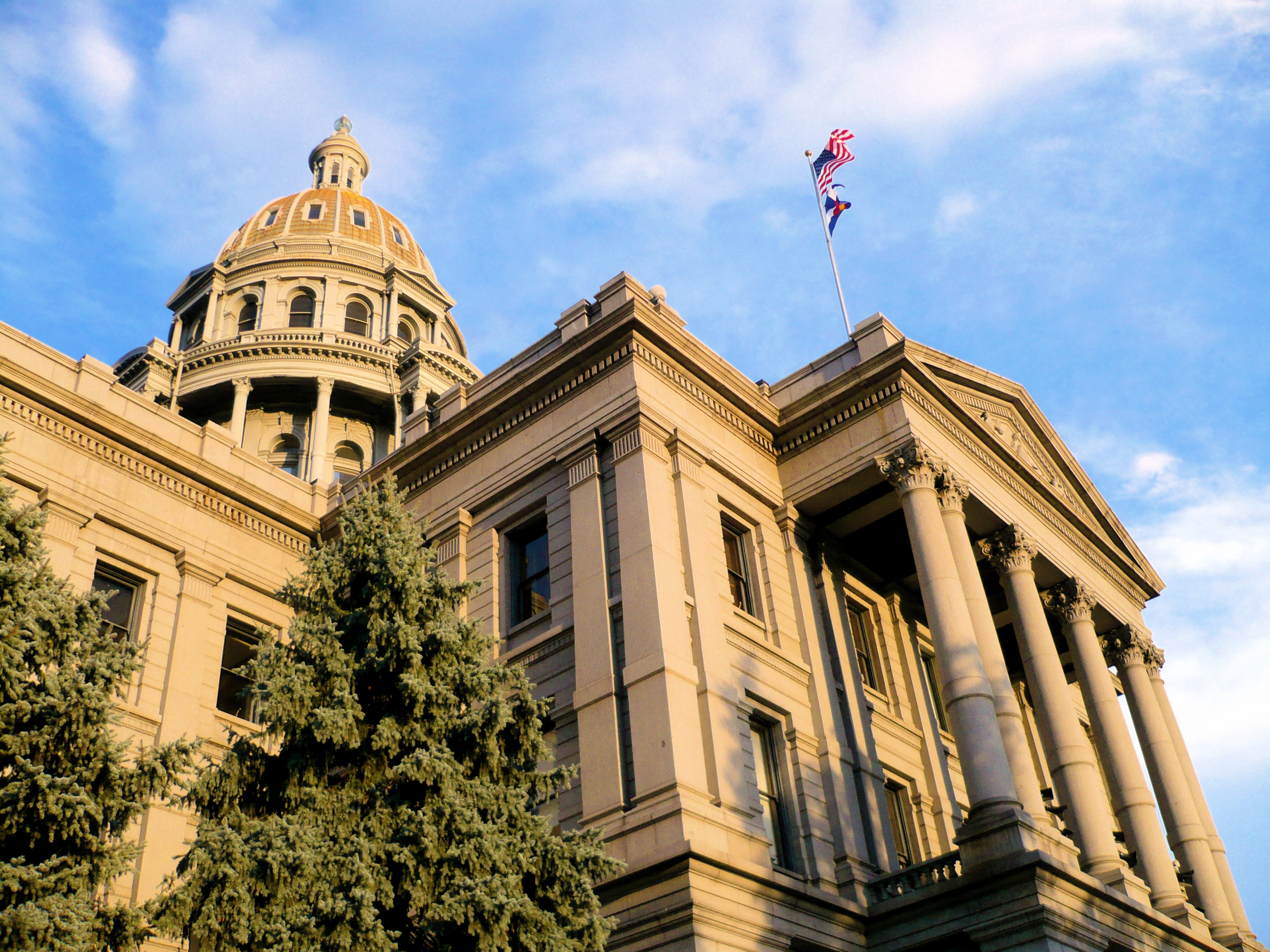 The Colorado State Capitol at dusk.